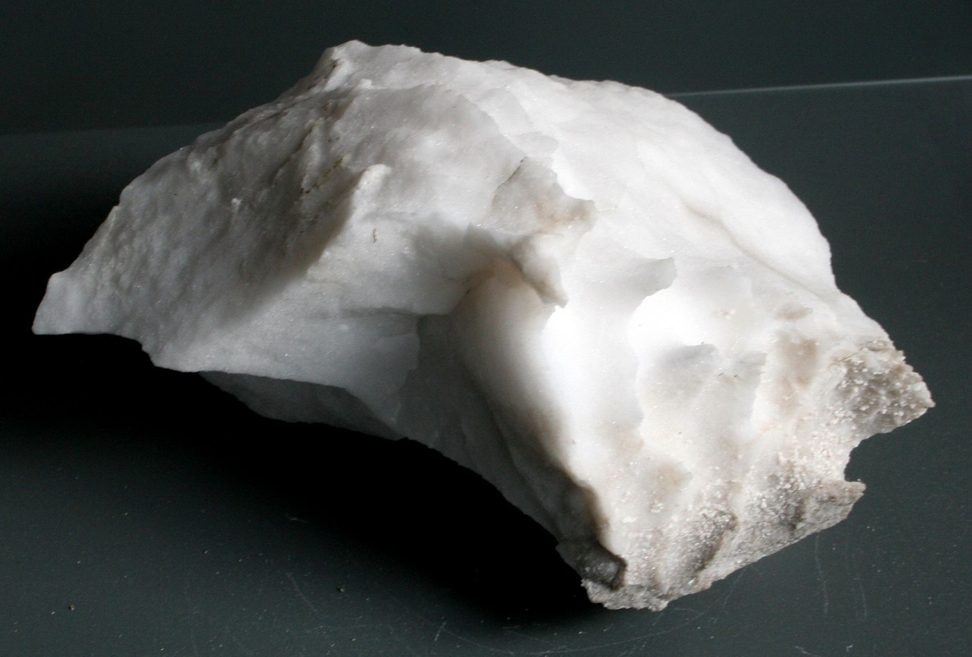 Alabaster (mineral-variety of gypsum)